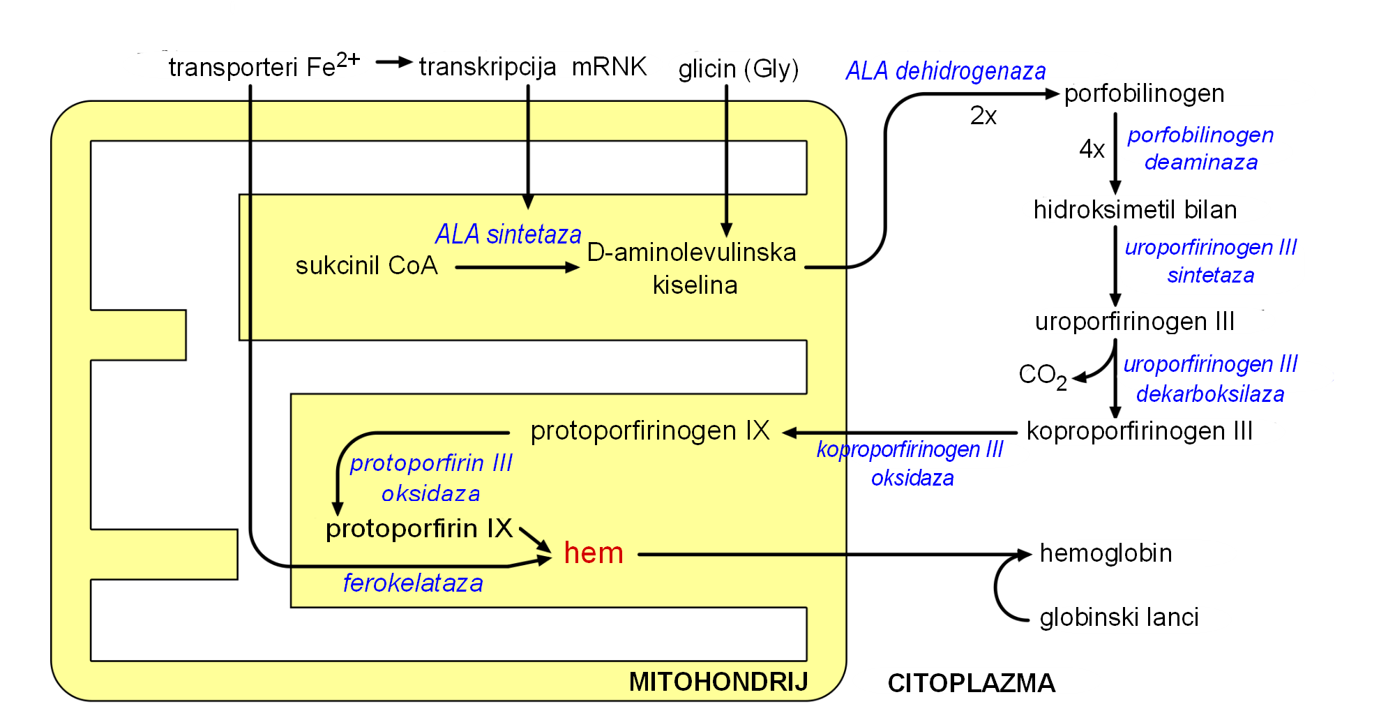 File:Heme synthesis.png - Croatian translation